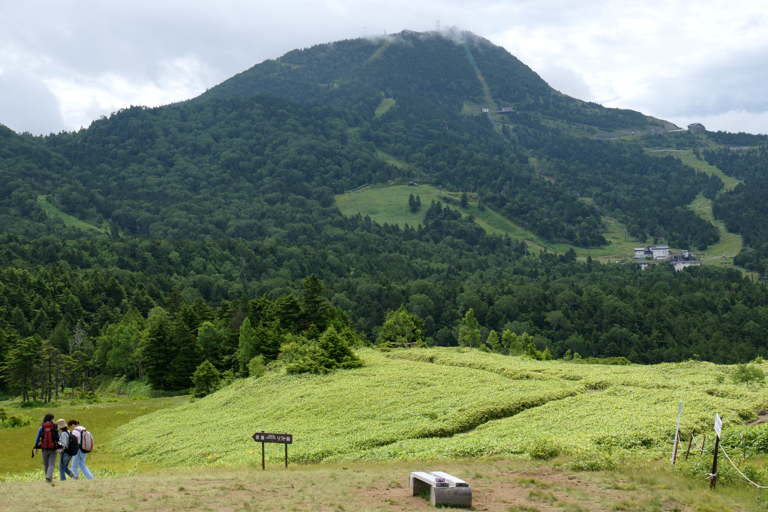 Mt. Yokote ,Yamanouchi, Nagano prefecture, Japan